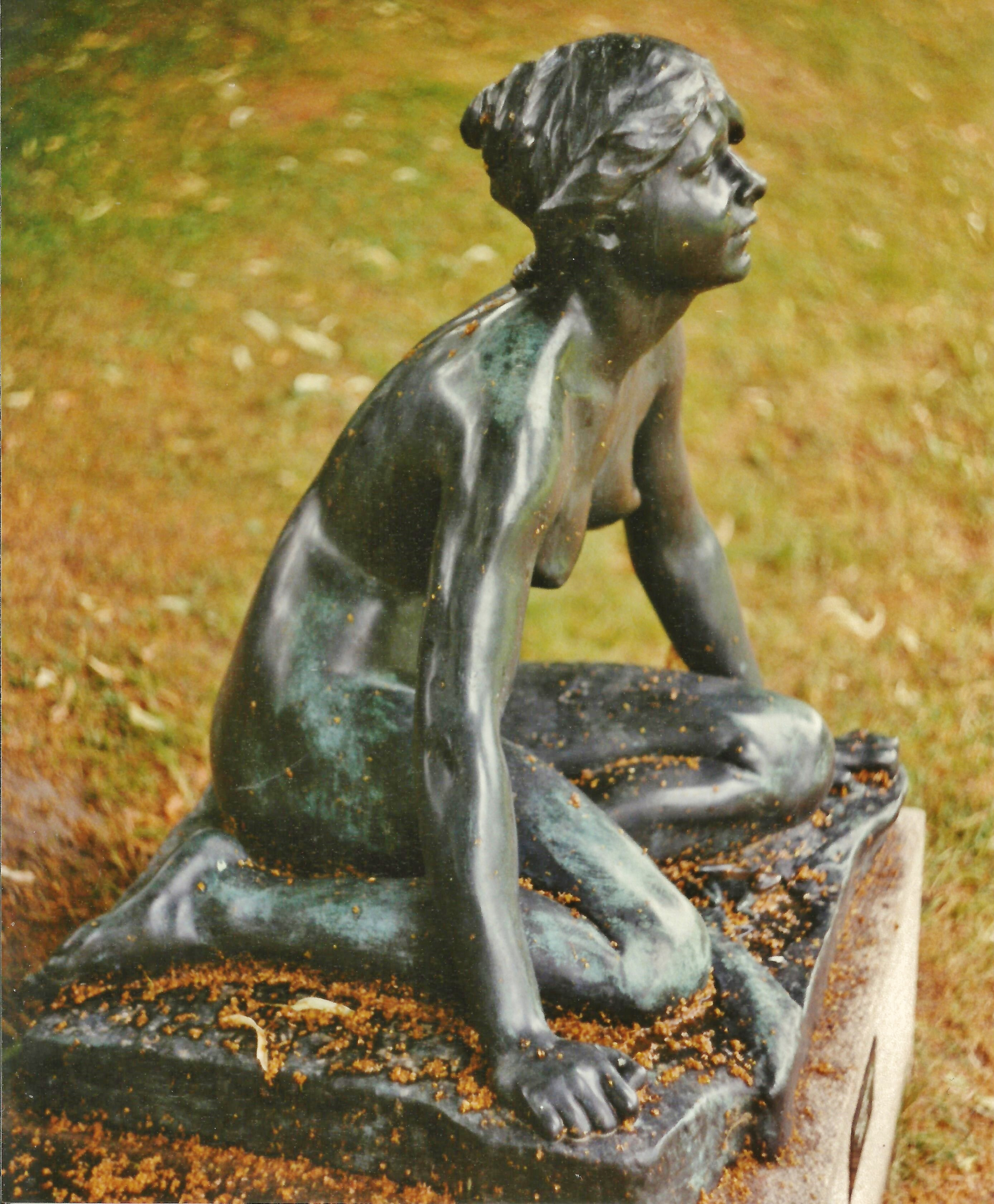 Statue by Swedish sculptor Per Hasselberg, Paris 1887/1889, copy from 1957 cast in bronze placed in Rottneros Park near Sunne in Värmland/Sweden